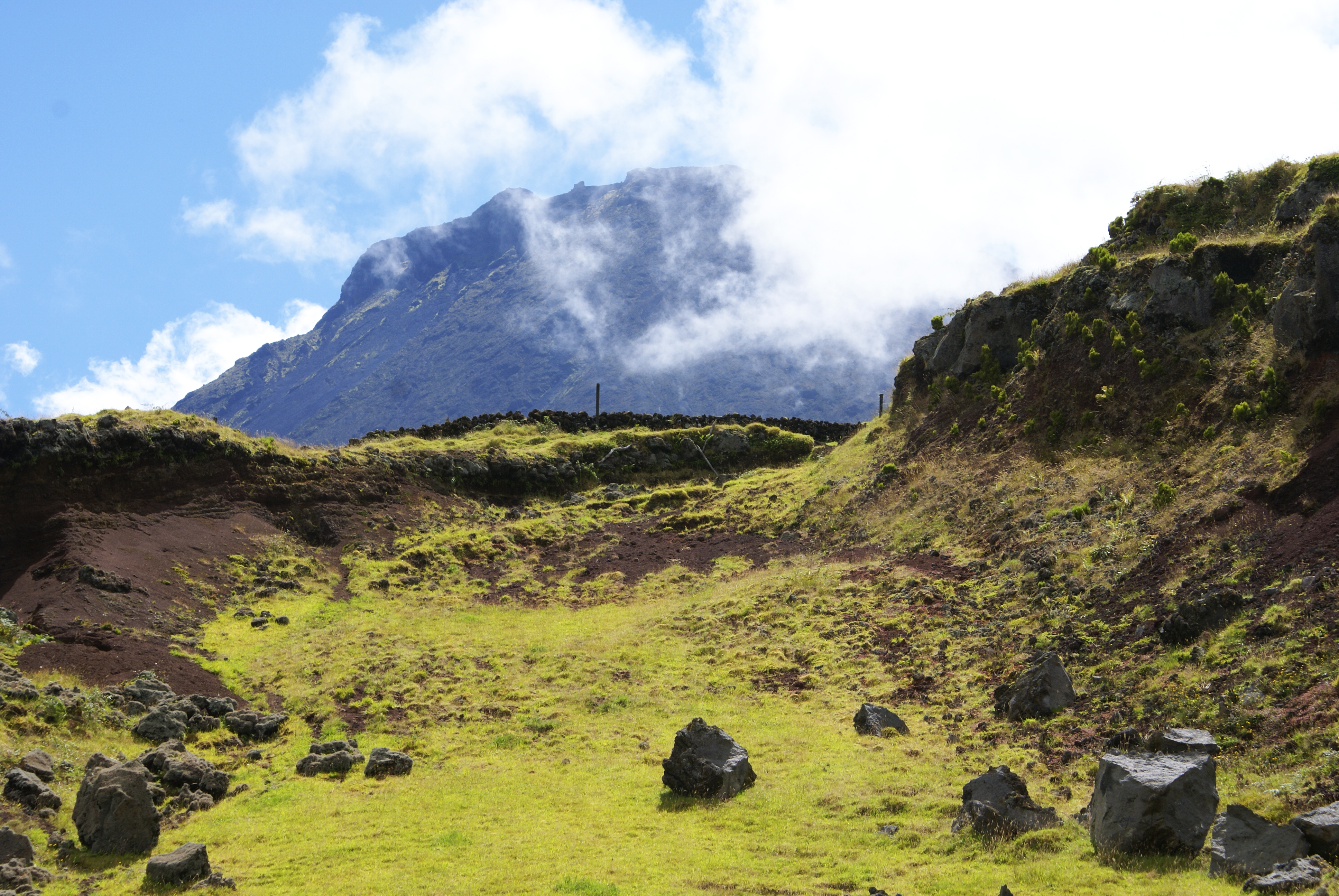 Montanha do Pico, aspectos 13 ilha do Pico, Açores, Portugal